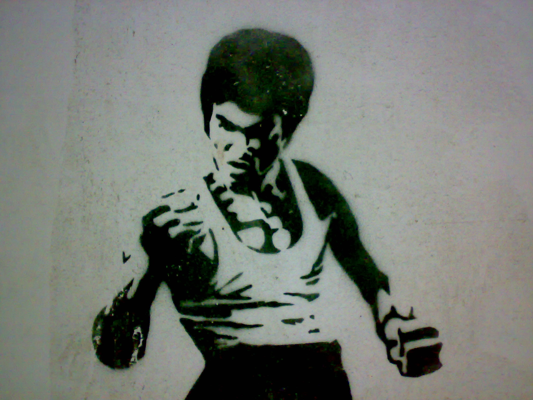 Bruce Lee wall painting. Tbilisi, Georgia